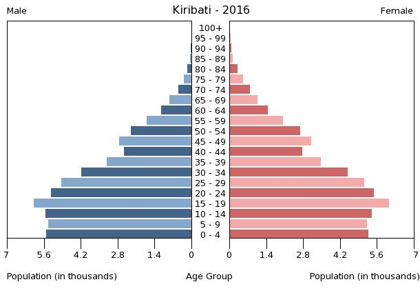 The population pyramid of Kiribati illustrates the age and sex structure of population and may provide insights about political and social stability, as well as economic development. The population is distributed along the horizontal axis, with males shown on the left and females on the right. The male and female populations are broken down into 5-year age groups represented as horizontal bars along the vertical axis, with the youngest age groups at the bottom and the oldest at the top. The shape of the population pyramid gradually evolves over time based on fertility, mortality, and international migration trends.